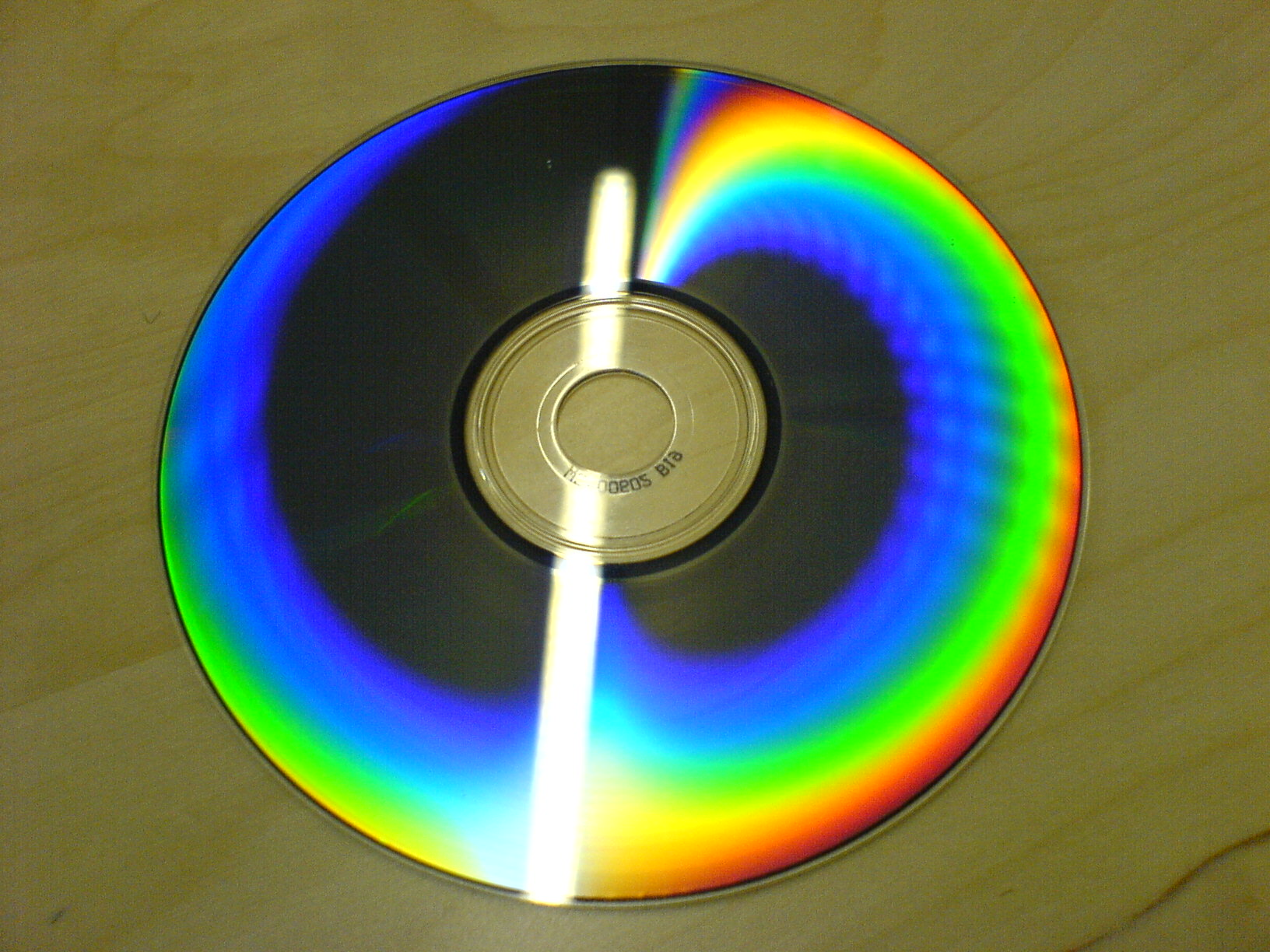 Rainbow on CD-ROM.